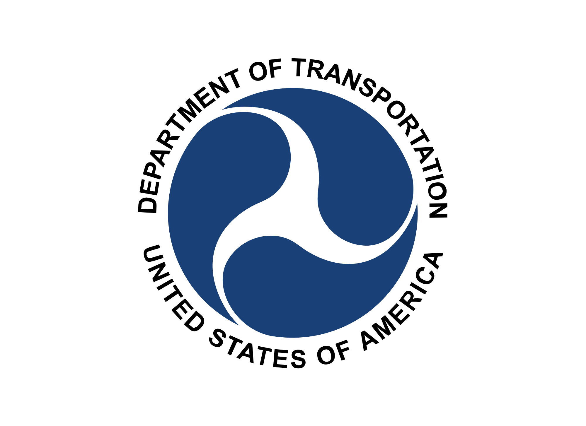 Flag of the United States Department of Transportation.